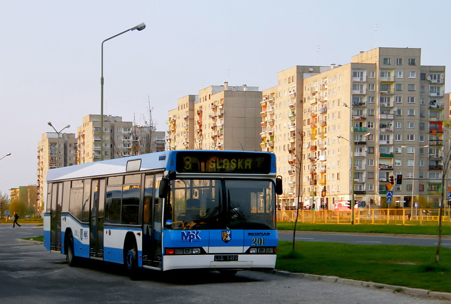 Neoplan N4016td bus (#201) in Legnica, Poland. Built 1998 in Poland - Neoplan Polska, MPK Legnica operator.